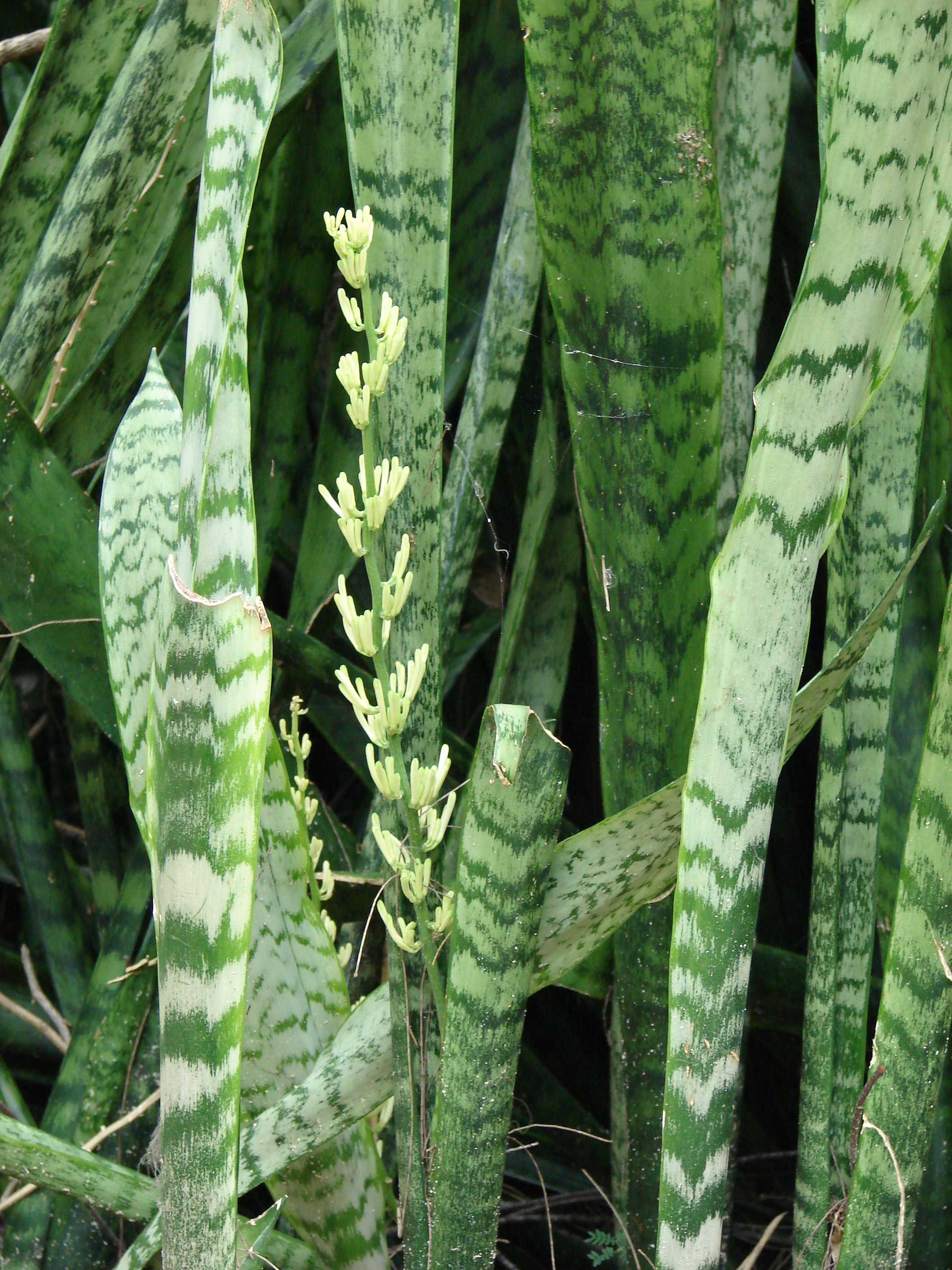 Sansevieria trifasciata (habit). Location: Midway Atoll, Enlisted Woods Sand Island